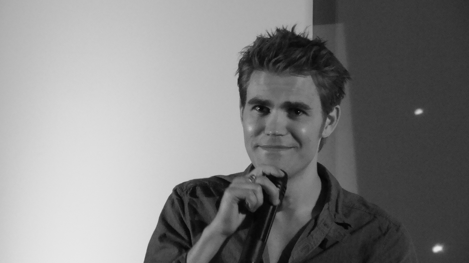 Paul Wesley